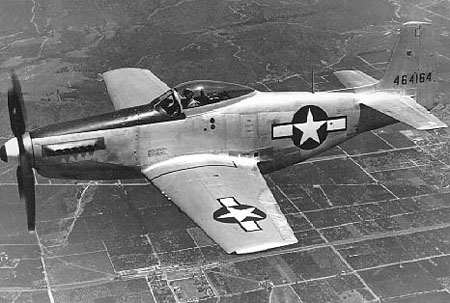 North American P-51H in flight